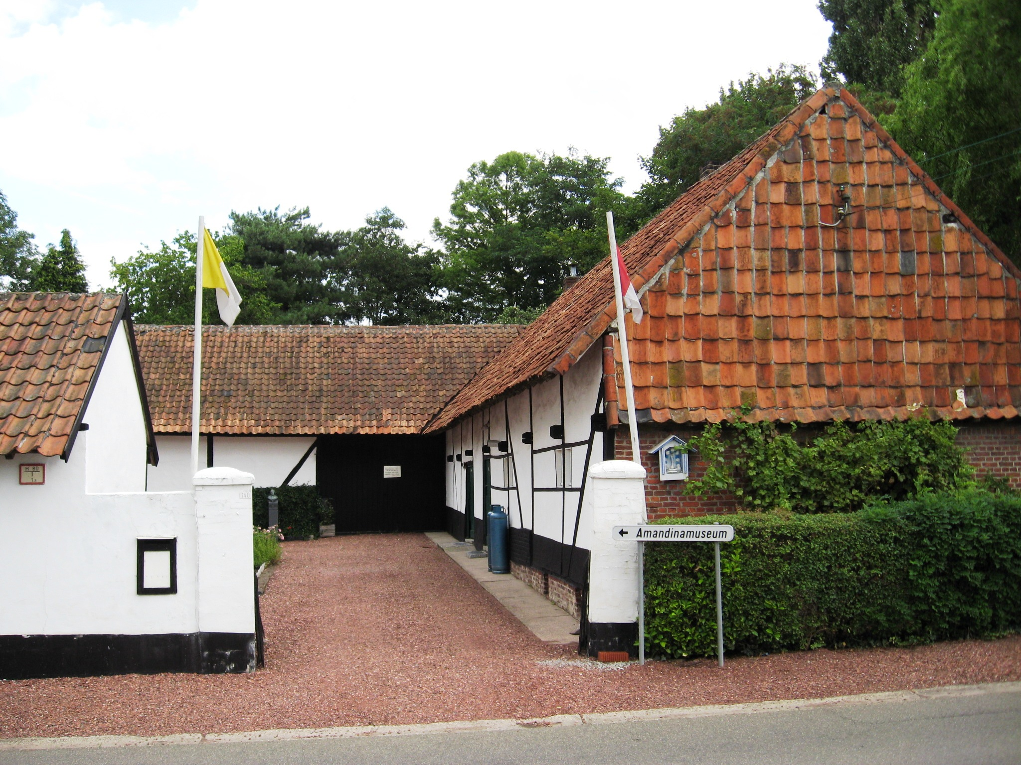 Amandinamuseum, the birth house of Saint Amandina in Schakkebroek, Herk-de-Stad, Limburg, Belgium